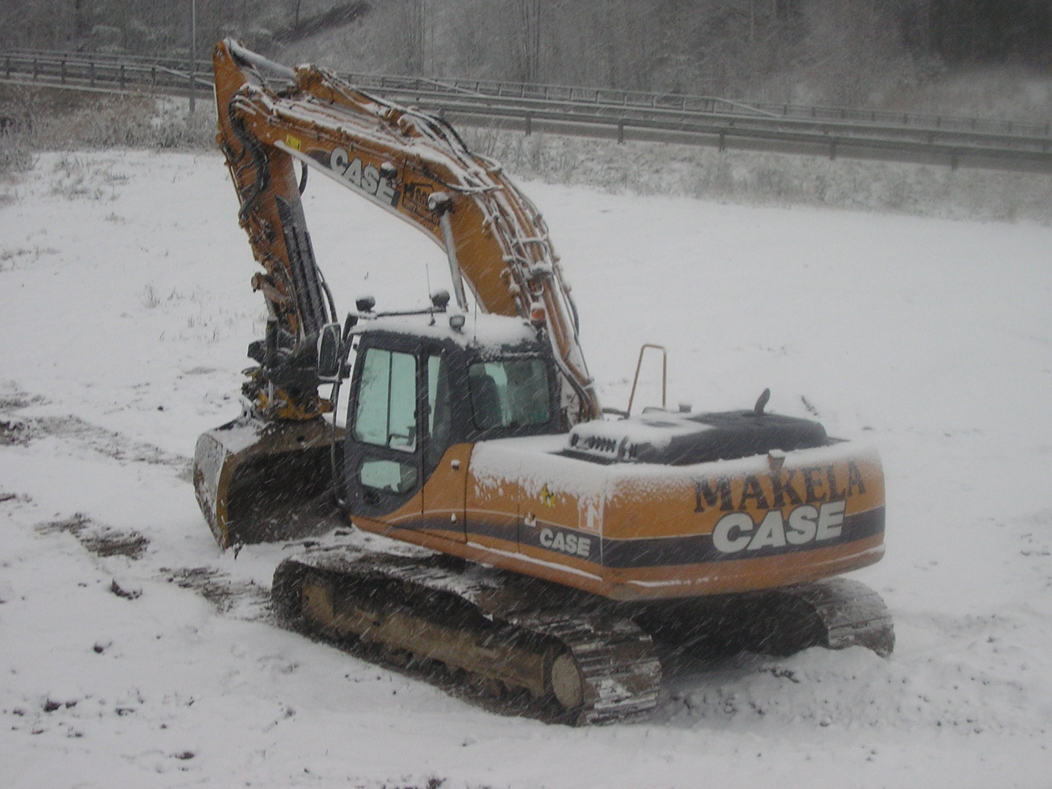 Case CE excavator in Jyväskylä, Finland